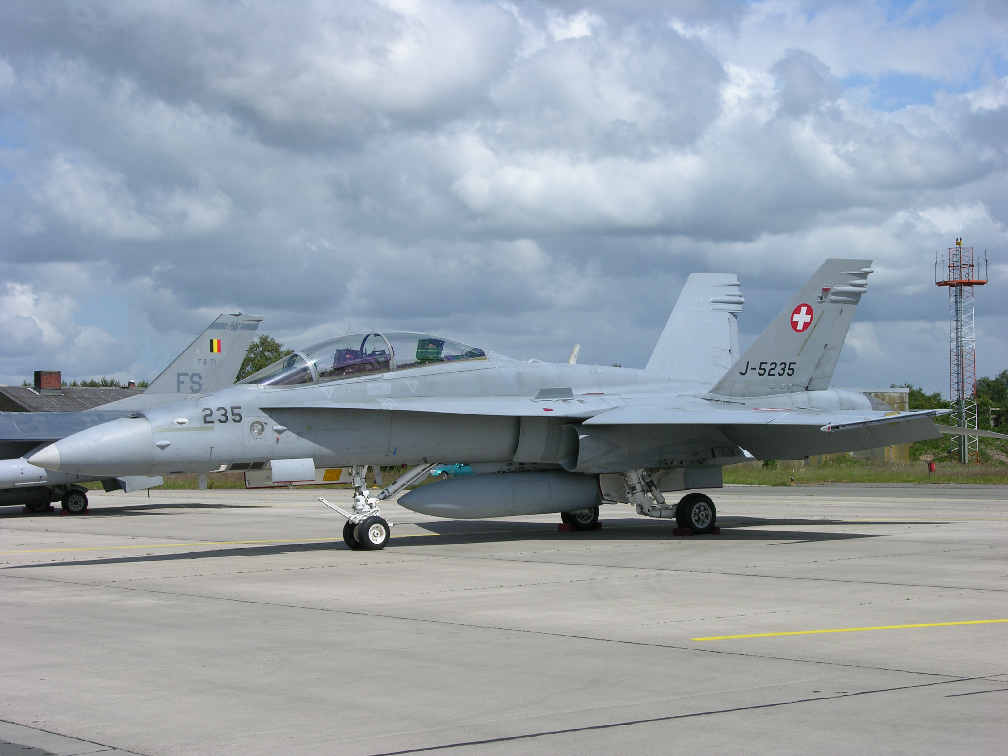 Swiss Air Force F/A-18D J-5235